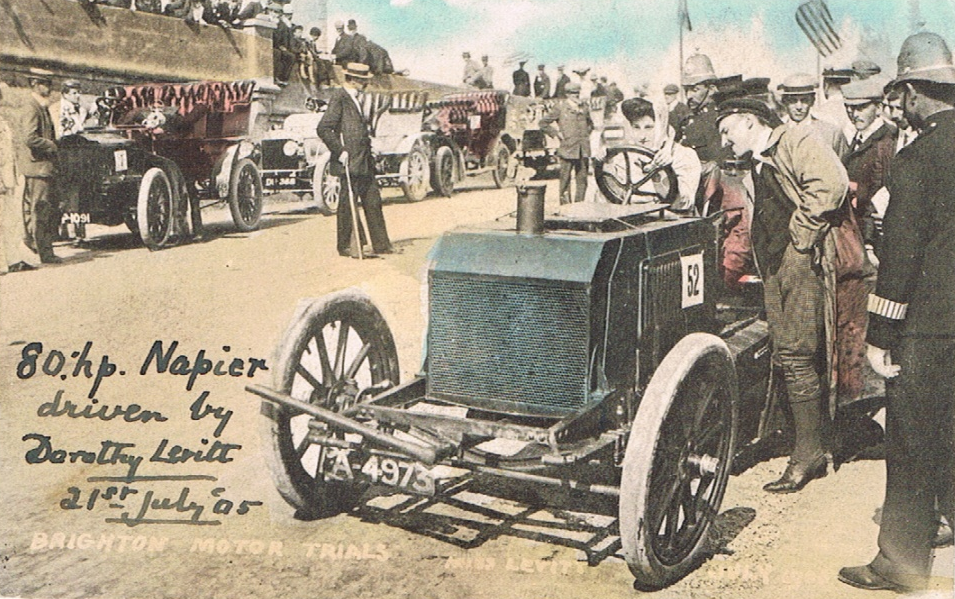 Postcard entitled "Brighton Motor Trials Miss Levitt July 1905" with hand-written note on face reaging "80 hp Napier driven by Dorothy Levitt 21st July '05". Used and postmarked "JY 25 05" (i.e., 25 July 1905)